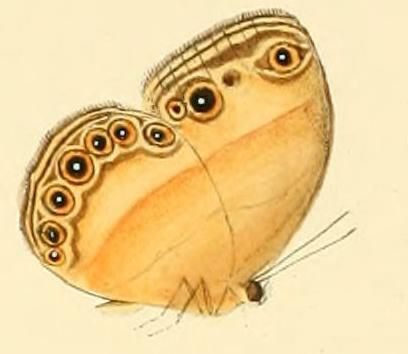 Plate: Mycalesis VII Mycalesis eliasis. Figs. 44, 45. Accepted as Heteropsis eliasis (Hewitson, 1866).